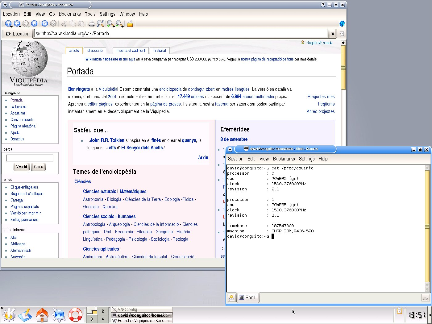 Screenshot of Debian GNU/Linux running on an IBM iSeries model 9406-520. You can see details of processor in Konsole window. Author: David Gaya